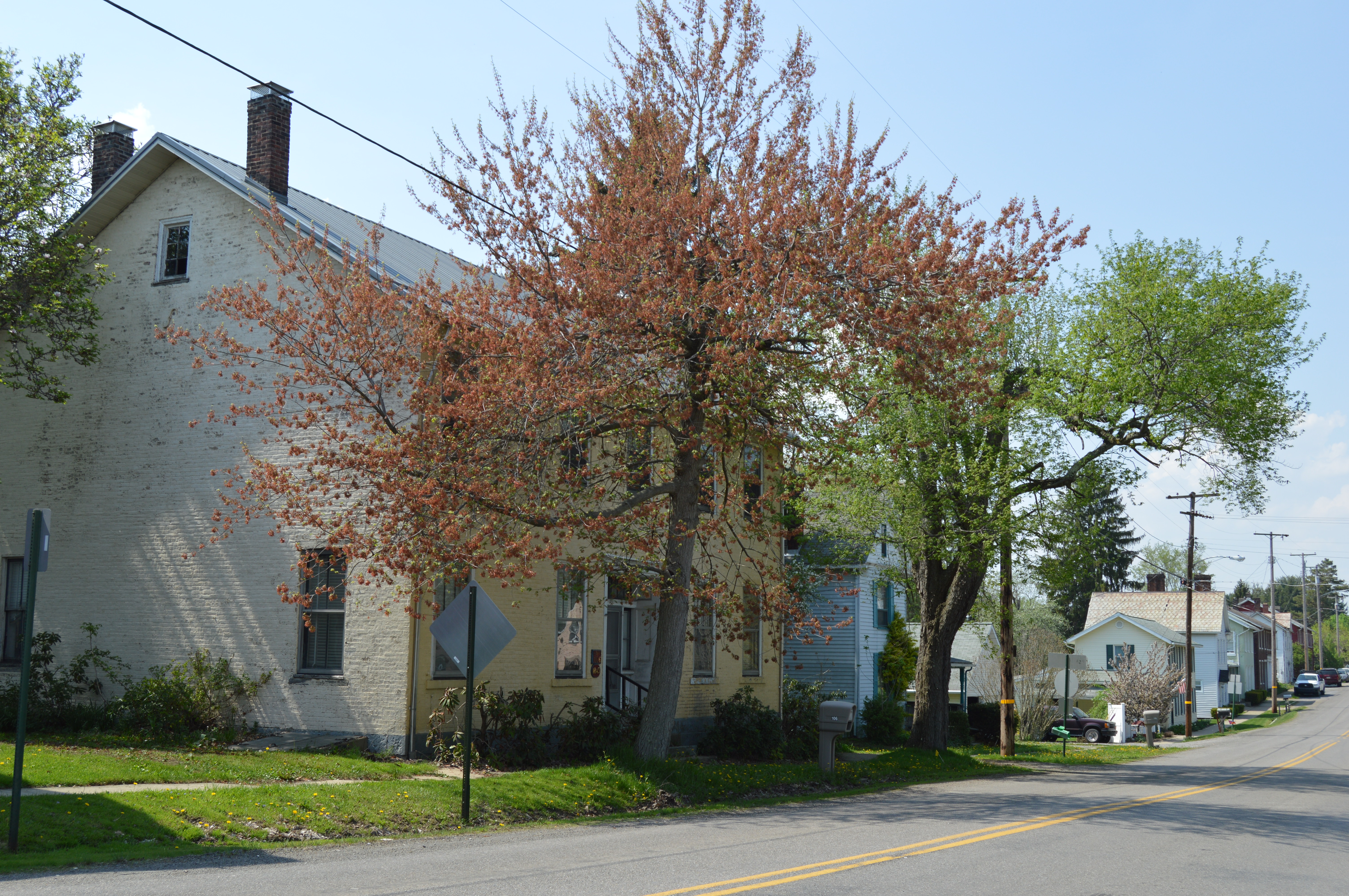 Houses on the western side of Franklin Street (Pennsylvania Route 528) just north of Main Street in Prospect, Pennsylvania, United States.